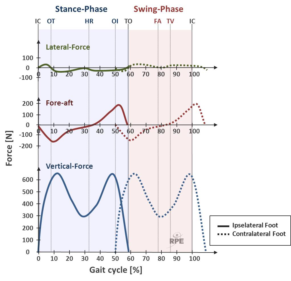 ground reaction forces in 3 dimensions indicated by measurements from a force plate